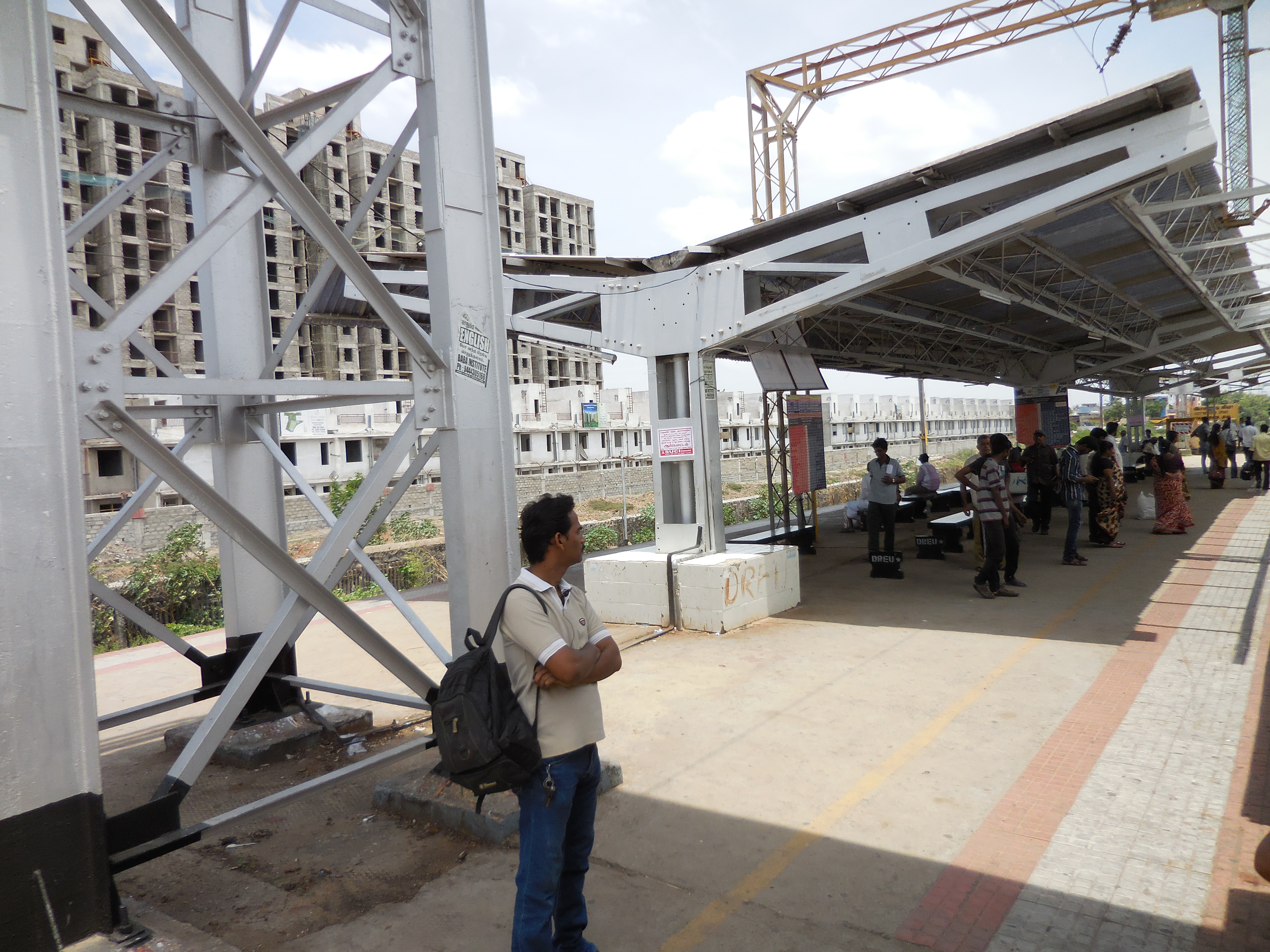 A view of Vyasarpadi railway station, Chennai, taken on 15 July 2014 at noon.